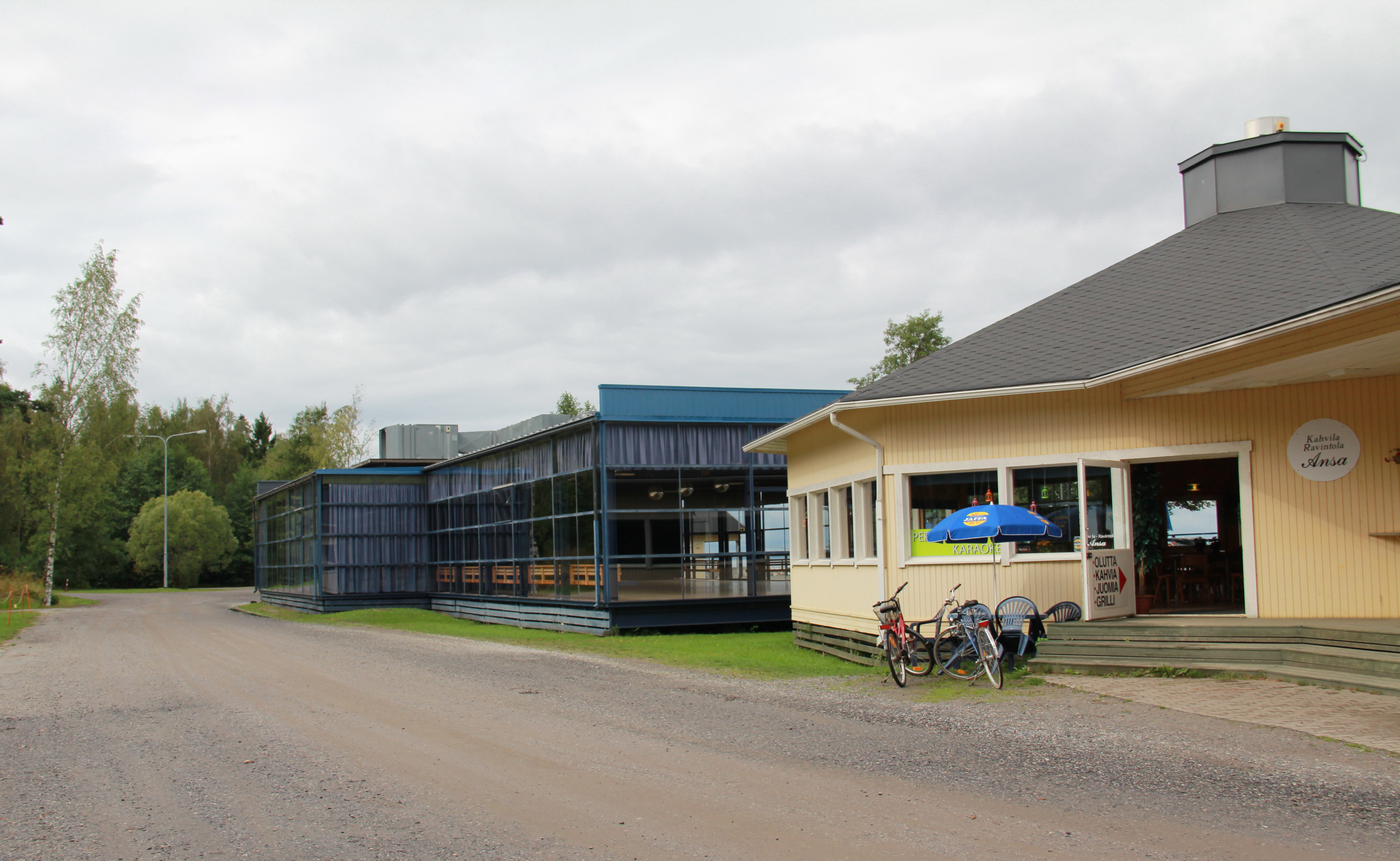 Valasranta dance hall, Yläne, Finland. Photo taken from mainland.